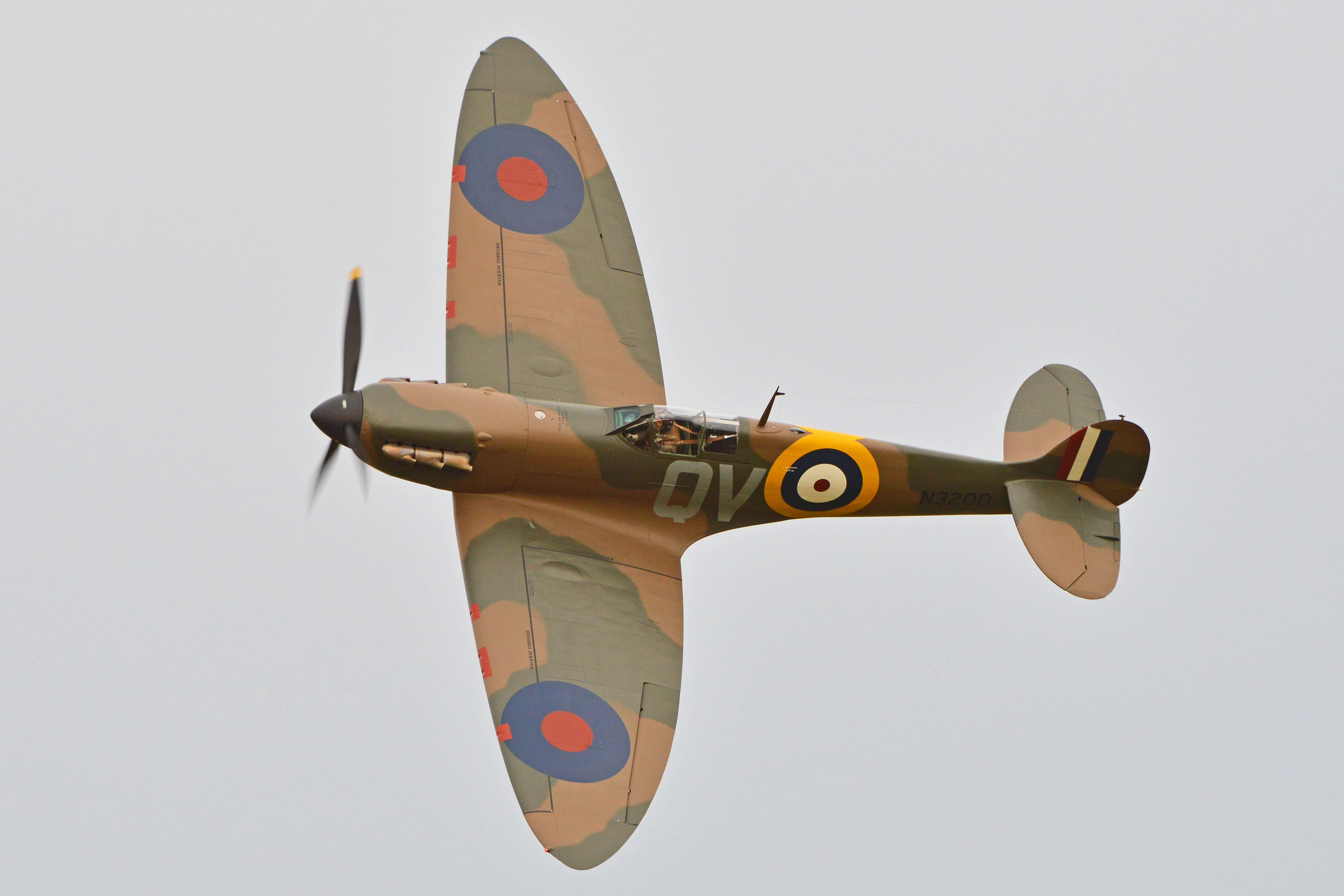 c/n 441. Recently donated to the Imperial War Museum, Duxford, and being operated for them by ARCo / Historic Flying Ltd. Wearing her own genuine 19sqn markings, exactly as she was on the day she was shot down over Dunkirk in 1940. Seen being beautifully flown at the 'Best of British' Flying Evening, Old Warden, UK. 18-7-2015